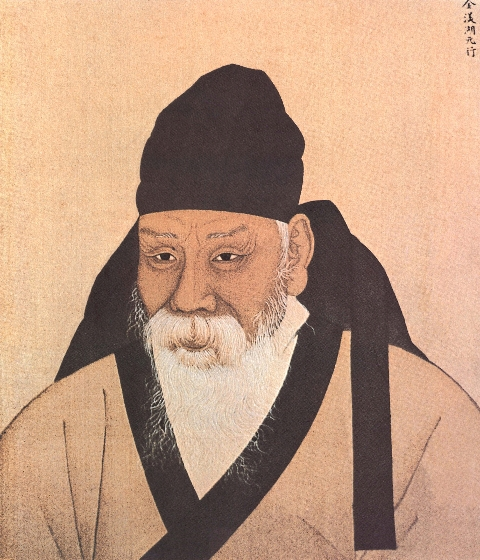 Portrait of Kim WonHang